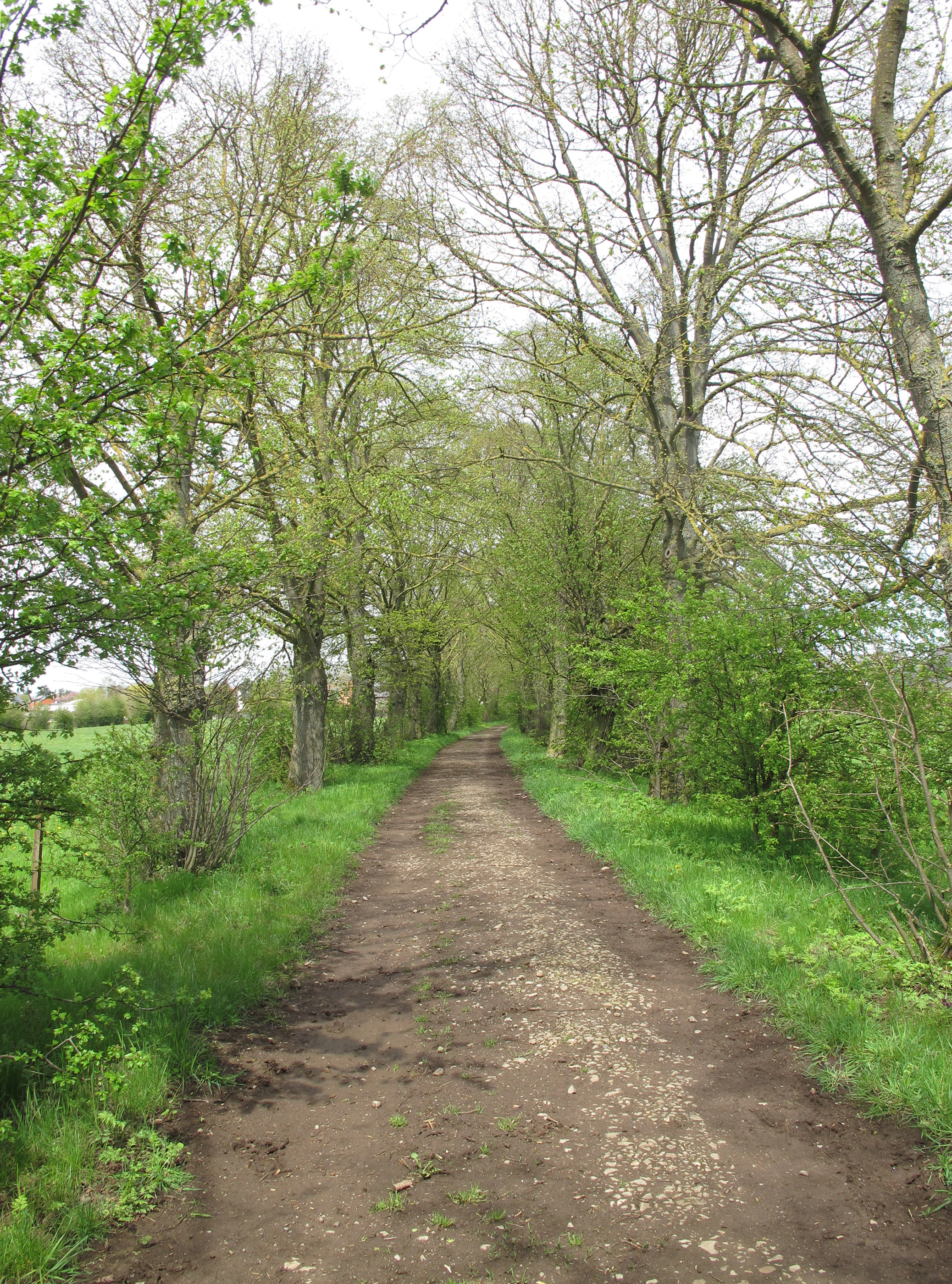 Lime-tree alley near Bergem, Luxembourg